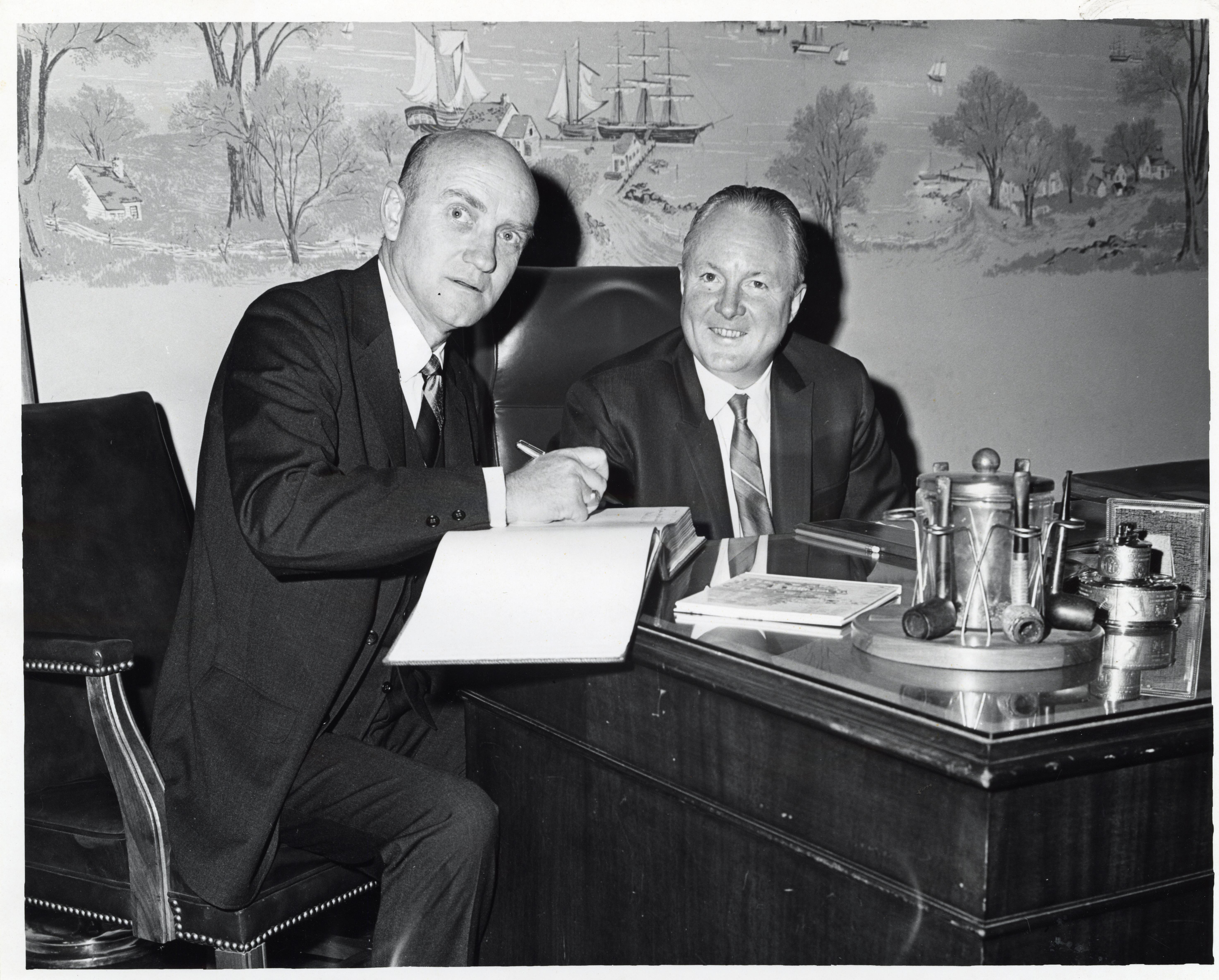 Title: Fulton Freeman, American Ambassador to Mexico, and Mayor John F. Collins during Mexico Week in Boston (April 17-23, 1966) Creator: O'Neill, John H. Date: 22 April 1966 Source: Mayor John F. Collins records, Collection #0244.001 File name: 244001_0178 Rights: Copyright City of Boston Citation: Mayor John F. Collins records, Collection #0244.001, City of Boston Archives, Boston